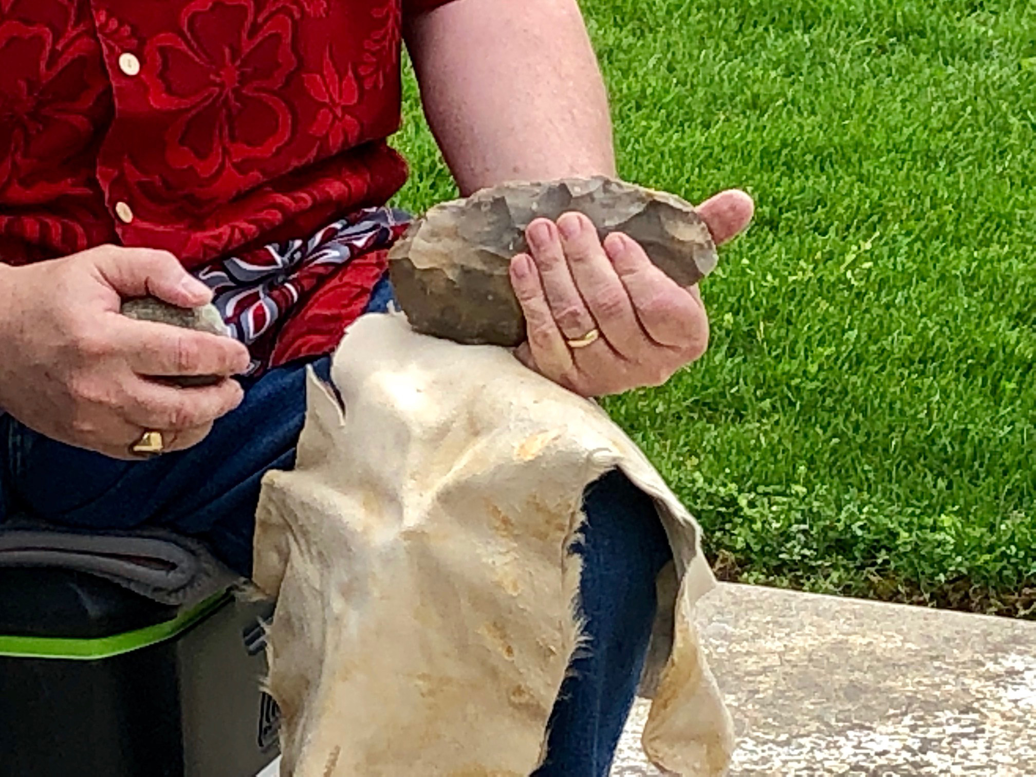 Nicholas Toth flaking stone to create a replica of an Acheulean handaxe as a part of his experimental archaeology.